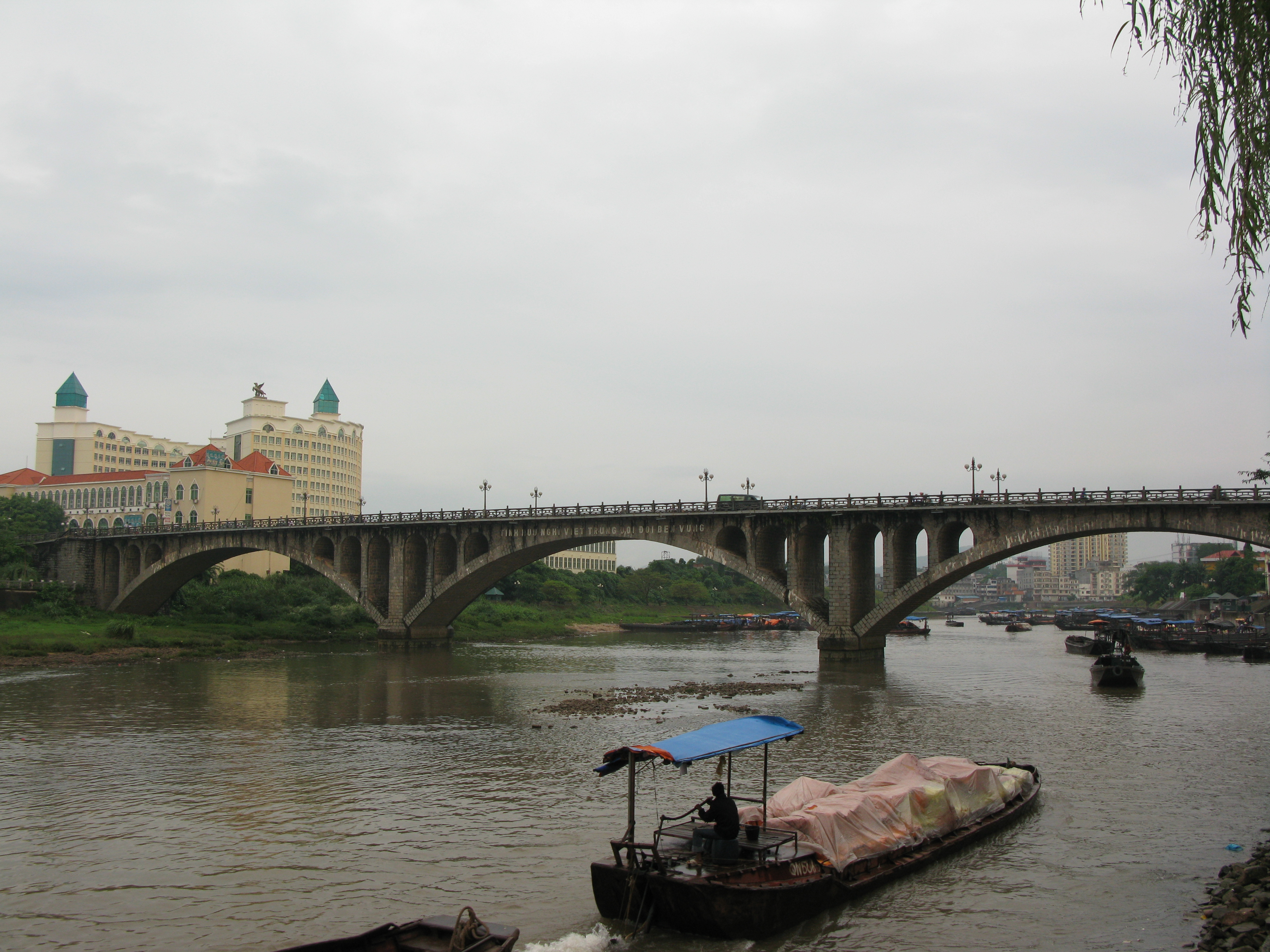 Ka Long river and Ka Long Bridge in Móng Cái District, Quảng Ninh Province, Việt Nam